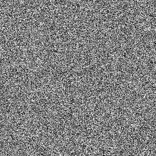 A 500 by 500 pixel randomly generated bitmap. This may be useful for demonstration purposes.